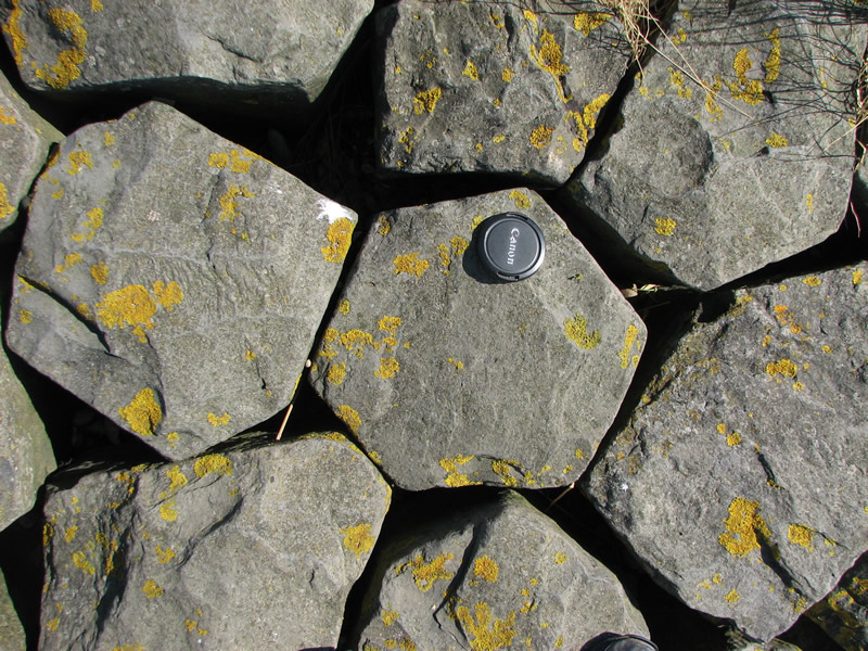 Hexagonal Basalt blocks.